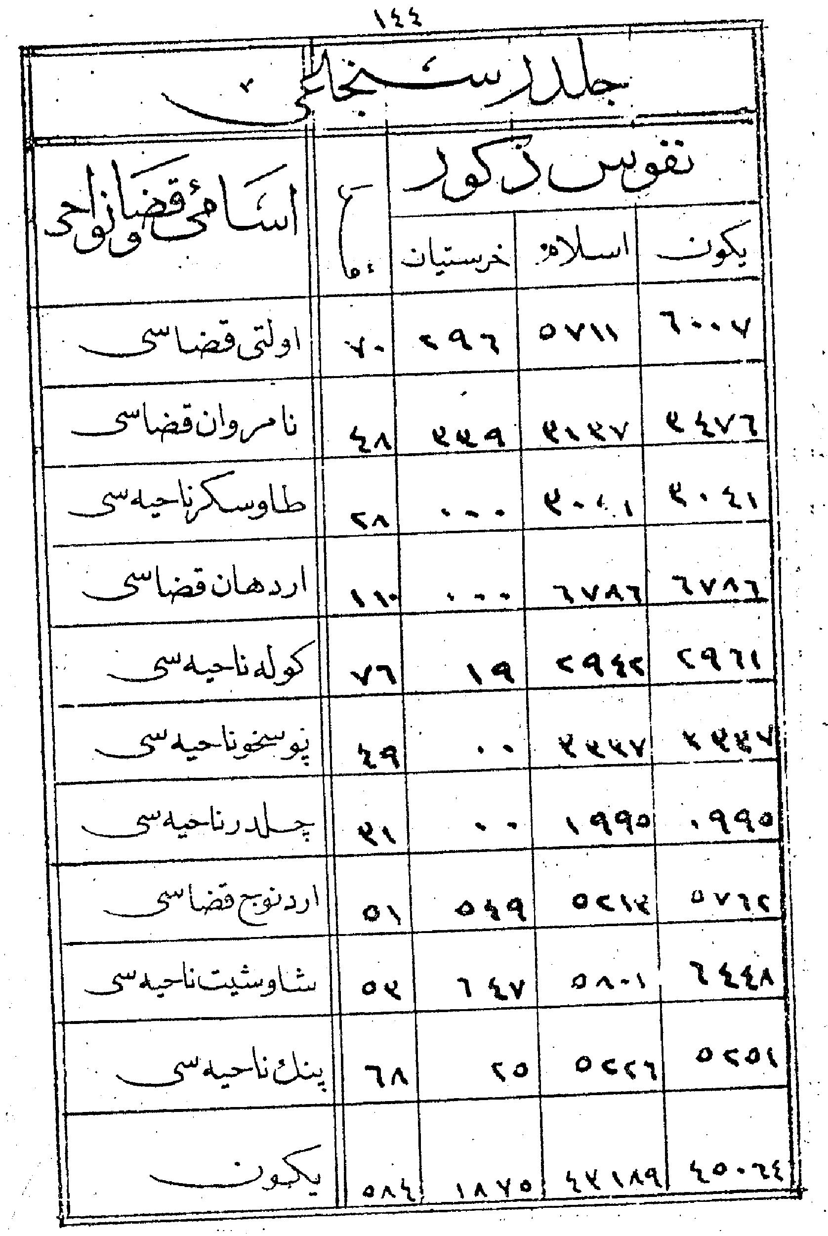 Population of Childir Sanjak by The yearbook of the Erzurum Vilayet of 1871